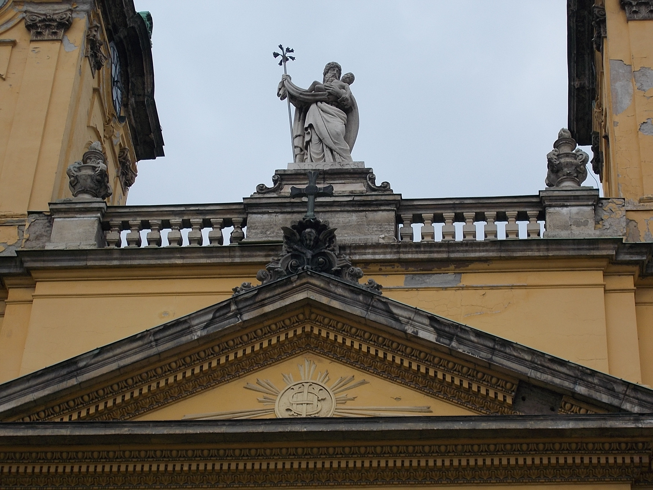 Saint Joseph statue between towers of the Saint Joseph Church. - Horváth Mihály Square, Csarnok neighbourhood, Budapest District VIII.